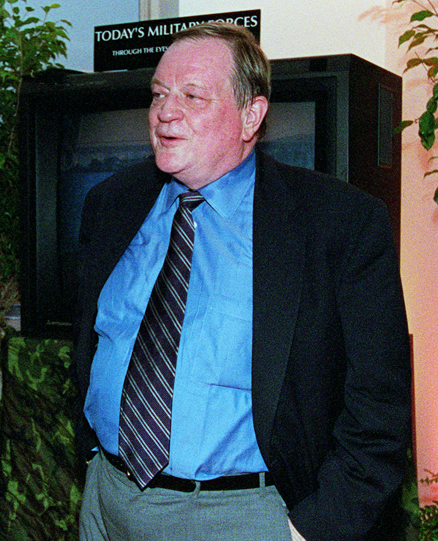 Mr. Richard Schickel during a Pentagon reception and film preview of the Dreamworks film on combat cameramen "Shooting War" on Oct. 4, 2000. Schickel, a Time Magazine film critic, produced the 90-minute documentary about World War II combat photographers. Secretary and Mrs. Cohen invited 250 defense leaders, commanders and corporate executives to the Department of Defense tribute to the military's past and present combat cameramen.